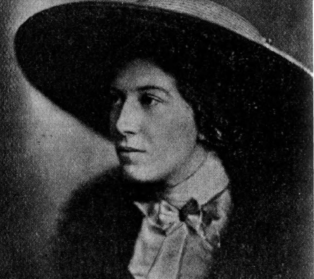 Christian Jollie Smith (photo appeared in an article on January 6,1913) Edith Wardell "Australia's Lady Lawyers: The Bar as a Profession for Women" in Everylady's Journal